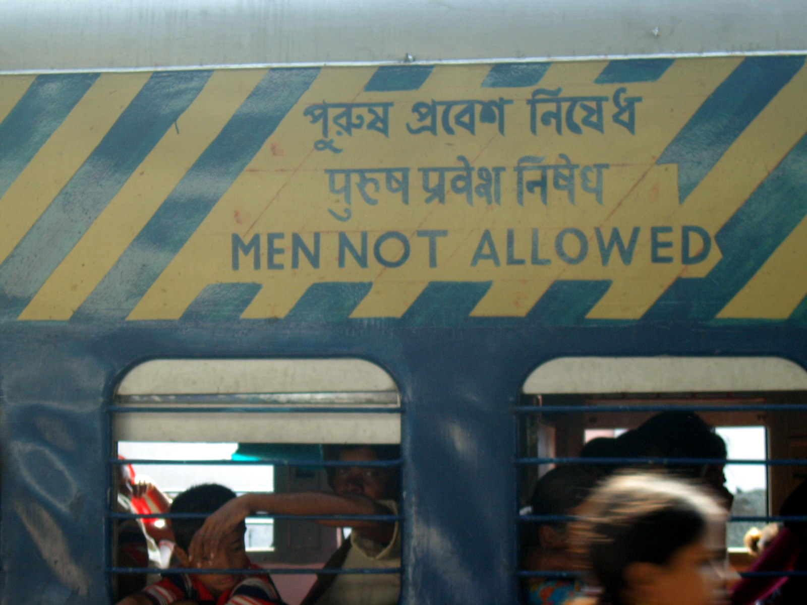 Men not Allowed? (Ajay Tallam, India)